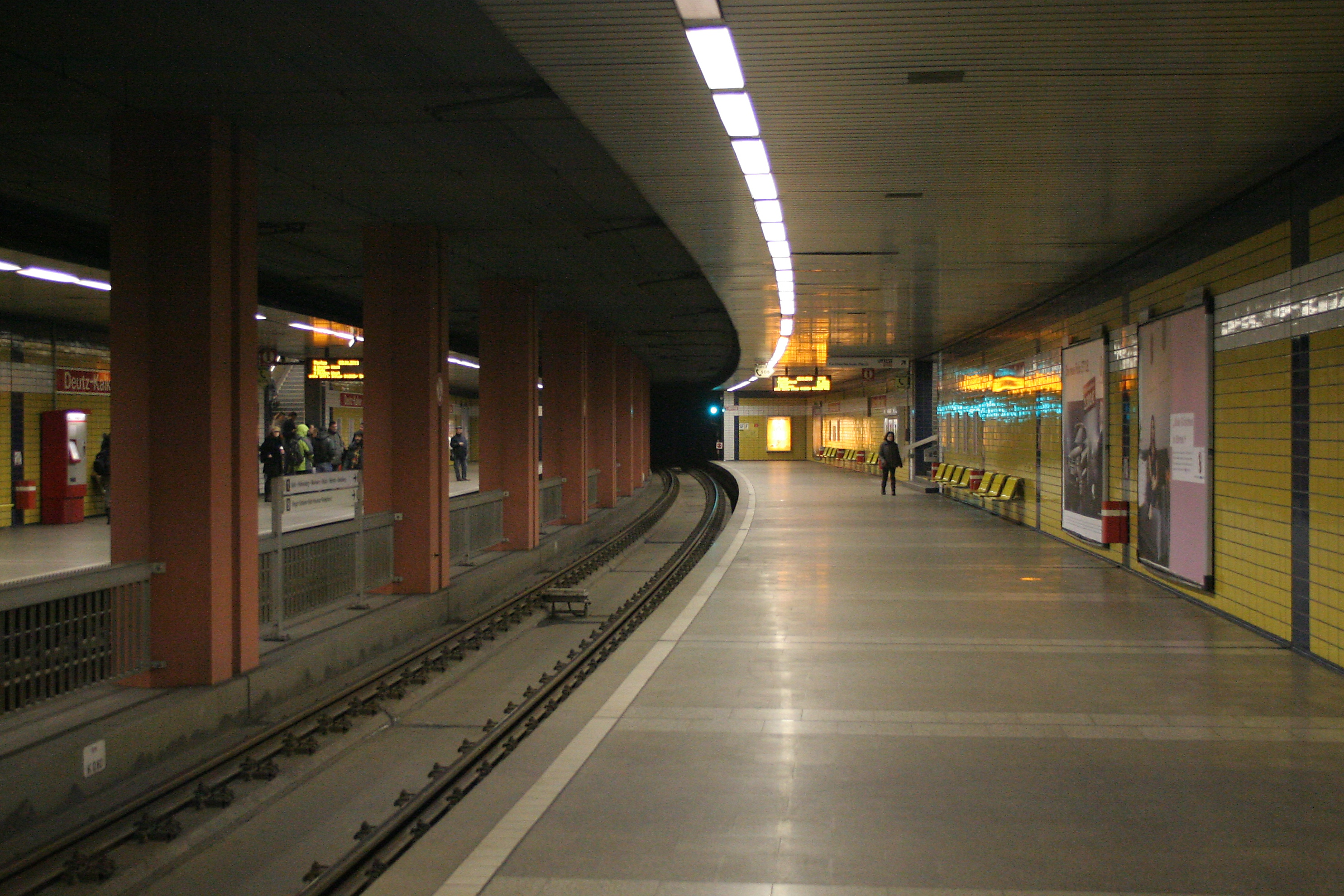 Cologne subway station Deutz-Kalker Bad